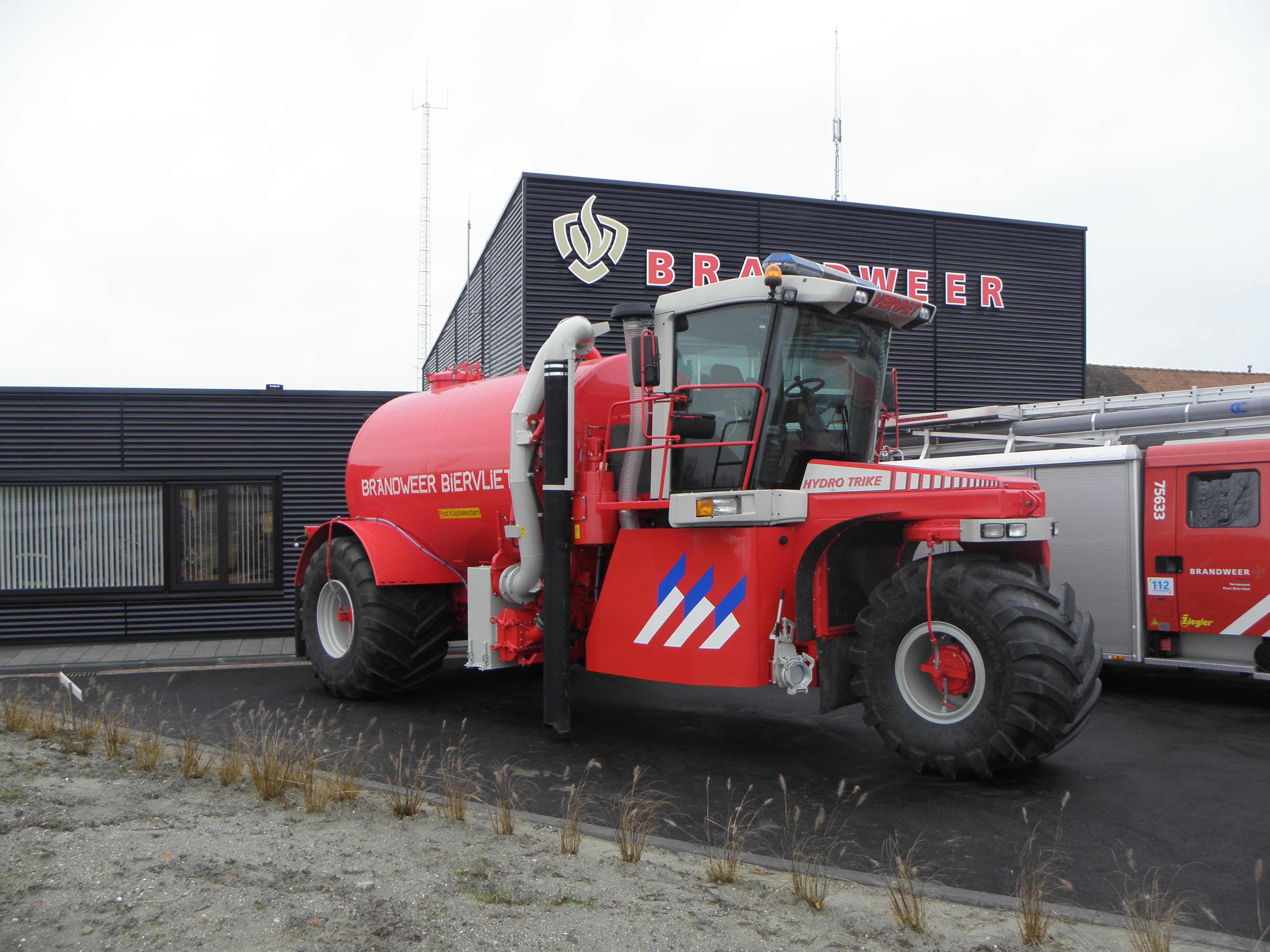 The Official Fire Department City Biervliet, special force